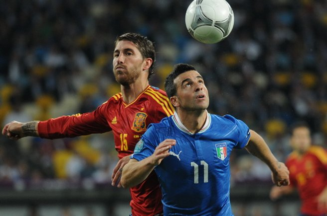 Sergio Ramos and Antonio Di Natale at Euro 2012 final Spain-Italy